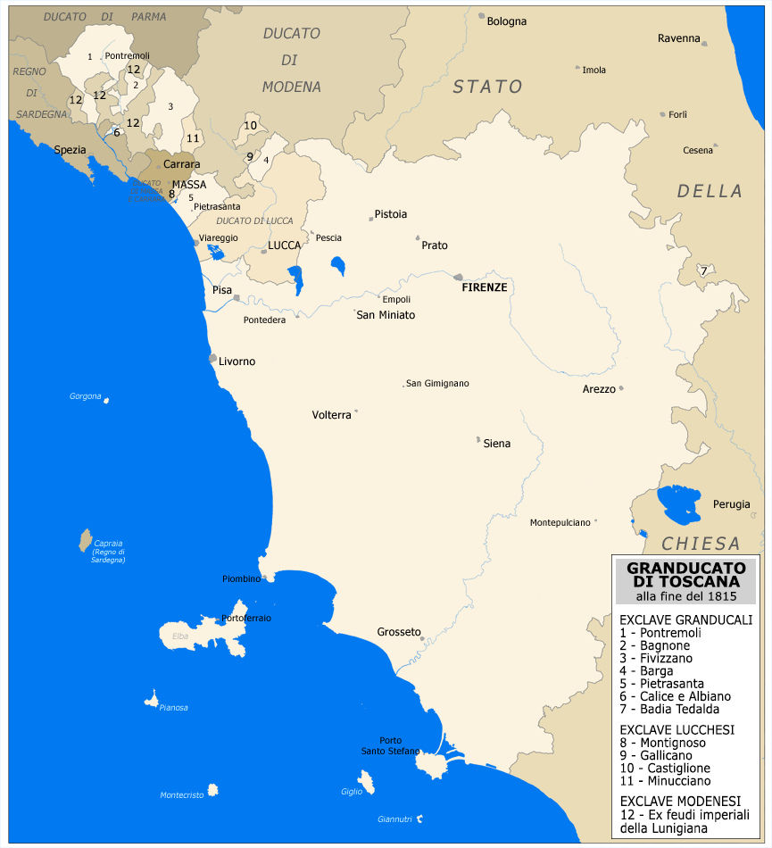 Map of Granduchy of Tuscany in 1815